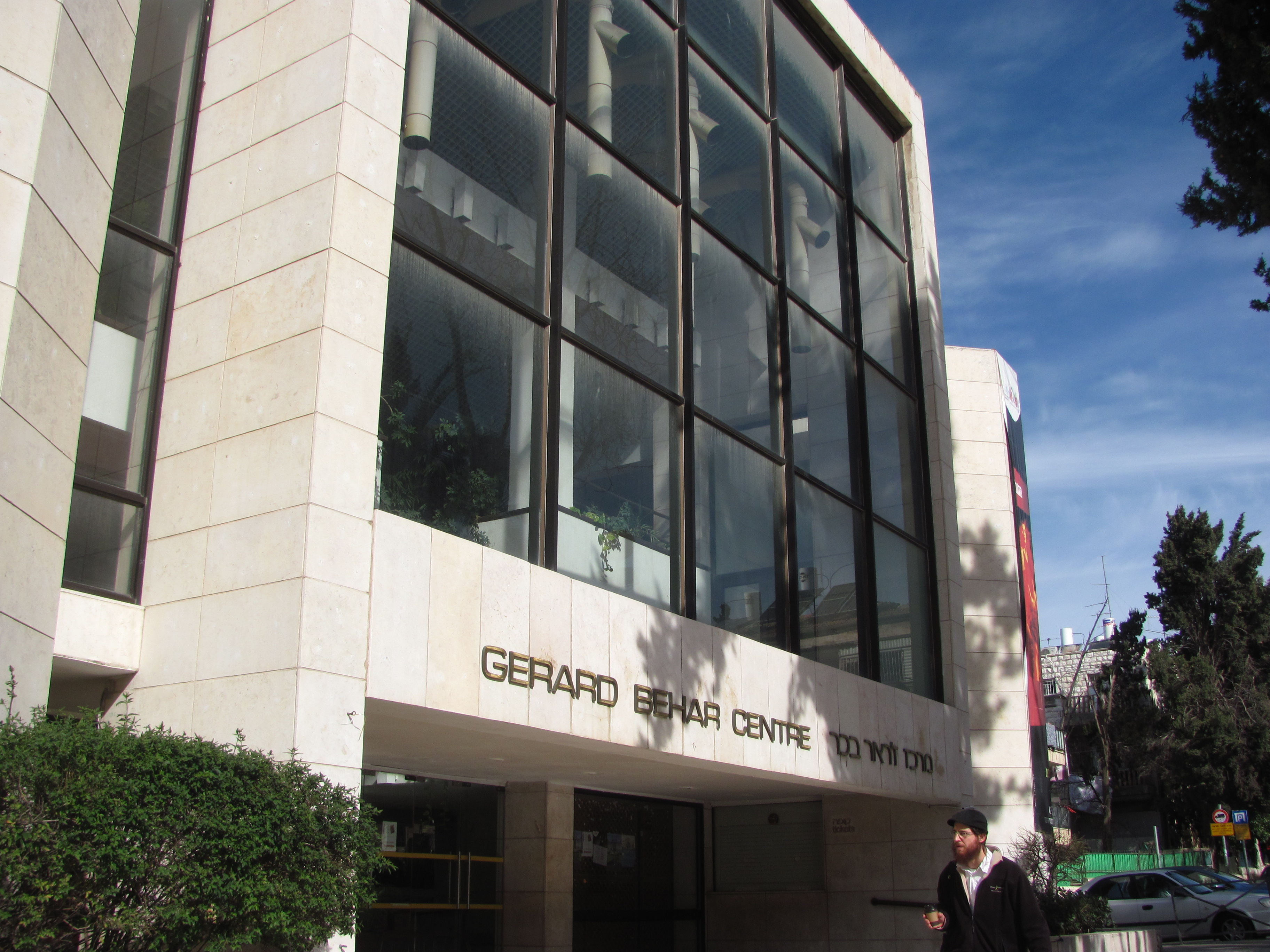 Main entrance of Gerard Behar Center, Jerusalem, Israel